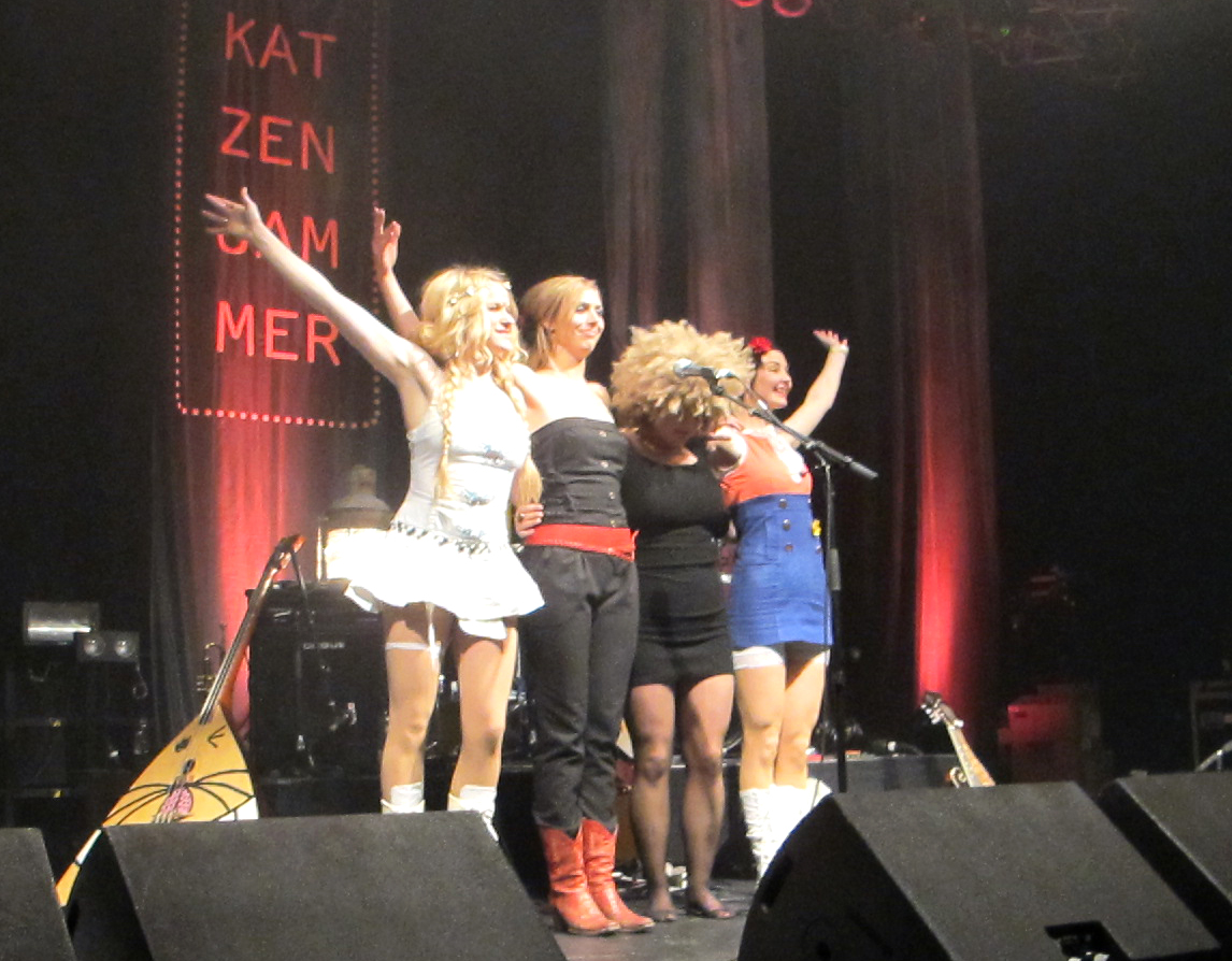 The Folk-rock band Katzenjammer at Rockhal, Luxembourg